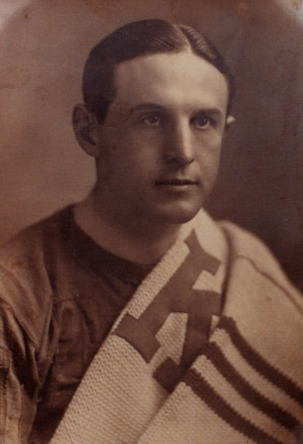 Local call number: SC00177 Title: Portrait of Kansas State Agricultural College student and Florida's future 46th Supreme Court Justice Harold "Tom" Sebring: Manhattan, Kansas Date: ca. 1920s General note: Born in Olathe, Kansas on March 9, 1898. Fought in WWI and received an honorable discharge from the U.S. Army in 1919, having been awarded numerous military decorations by the United States and France. Sebring received a Bachelor of Science degree from Kansas State Agricultural College in 1923. He was head coach of the University of Florida track, boxing and football teams while earning his law degree there. Sebring graduated with a Bachelor of Laws degree in 1928. He served as Florida Supreme Court Justice from 1943 until 1955. In 1946 Justice Sebring was appointed by U.S. President Harry S. Truman to the U.S. Military War Crimes Tribunal in Nuremberg, Germany following WWII. Sebring requested, and was granted, a leave of absence for a period of up to one year during which a number of Circuit Court Judges were called to the Supreme Court to sit in his place, render opinions and vote as a full member of the Court. On September 1, 1955, Sebring retired from the Florida Supreme Court and was named the dean of Stetson University College of Law. Harold L. "Tom" Sebring died on July 26, 1968. Physical descrip: 1 digital image - b&w Series Title: Supreme Court collection Repository: State Library and Archives of Florida, 500 S. Bronough St., Tallahassee, FL 32399-0250 USA. Contact: 850.245.6700. Persistent URL: Visit Florida Memory to learn more about the history of college football in Florida.